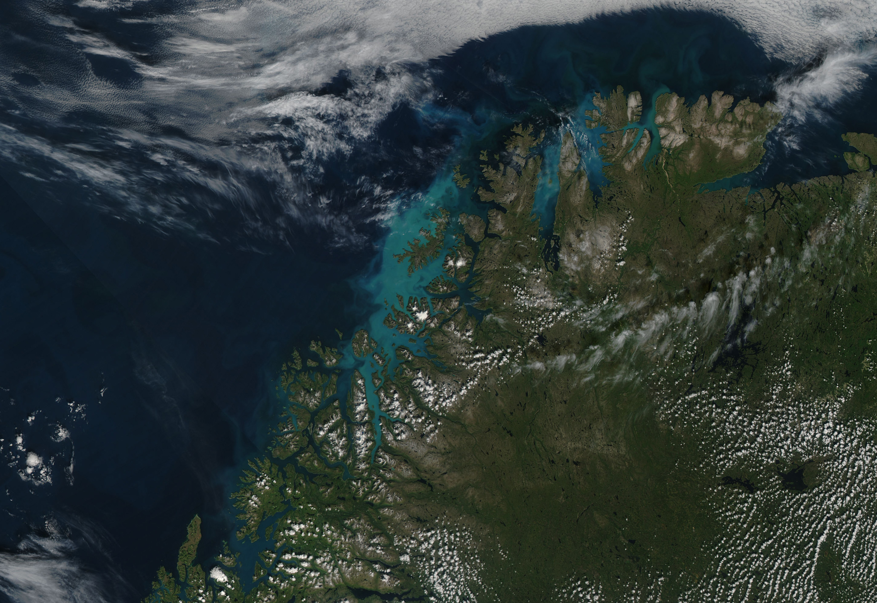 The brilliant shades of blue and green that fill the waters near the shore are likely phytoplankton, microscopic plant-like organisms that live in the surface waters of the ocean.